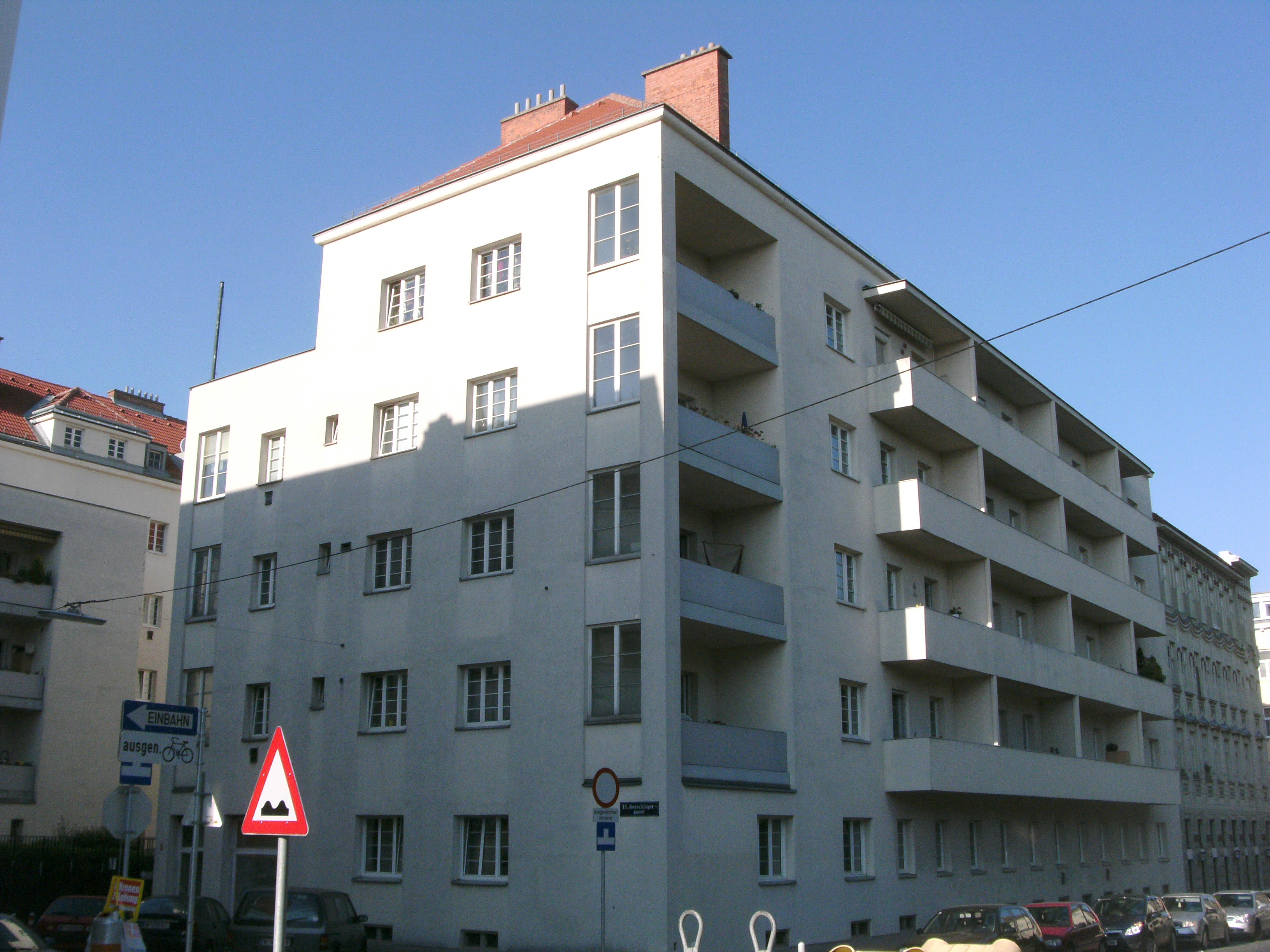 Residential municipal building in Geyschlaegergasse 2-12, Vienna's 15th district This media shows the Vienna residential building (Gemeindebau) with the ID 1068.